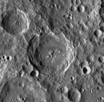 LROC image. Spencer Jones at center, eroded Papaleksi at bottom left